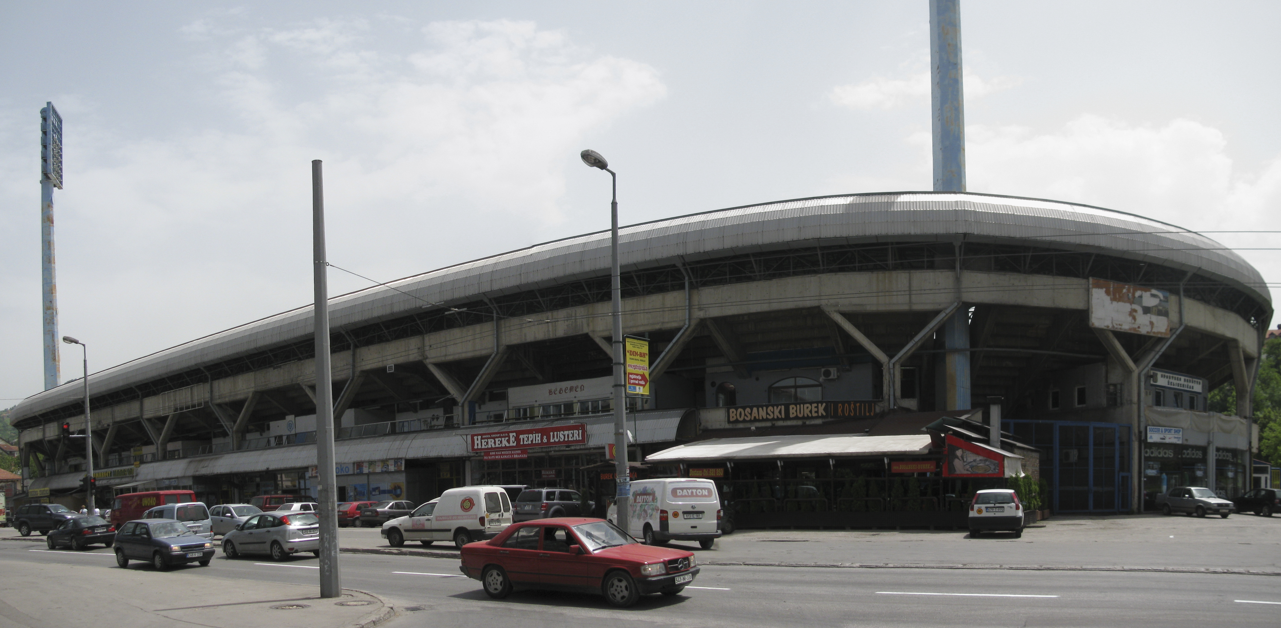 Panoramic view of Grbavica Stadium Home of FK Željezničar Sarajevo